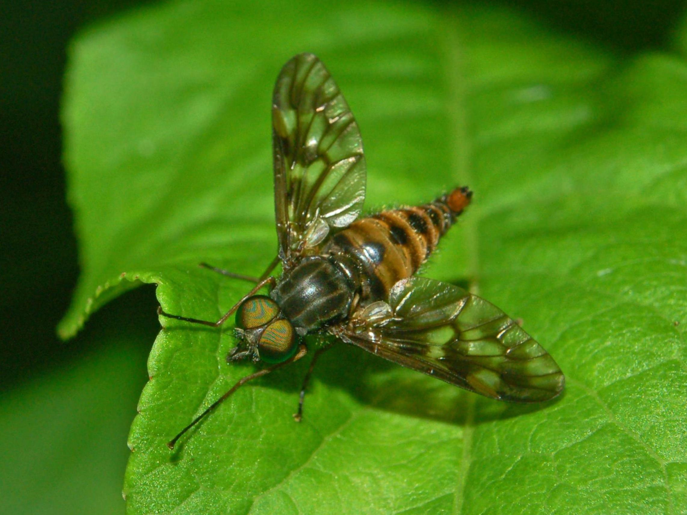 "Atherix ibis" - Male. Val Noci, Genova, Italy